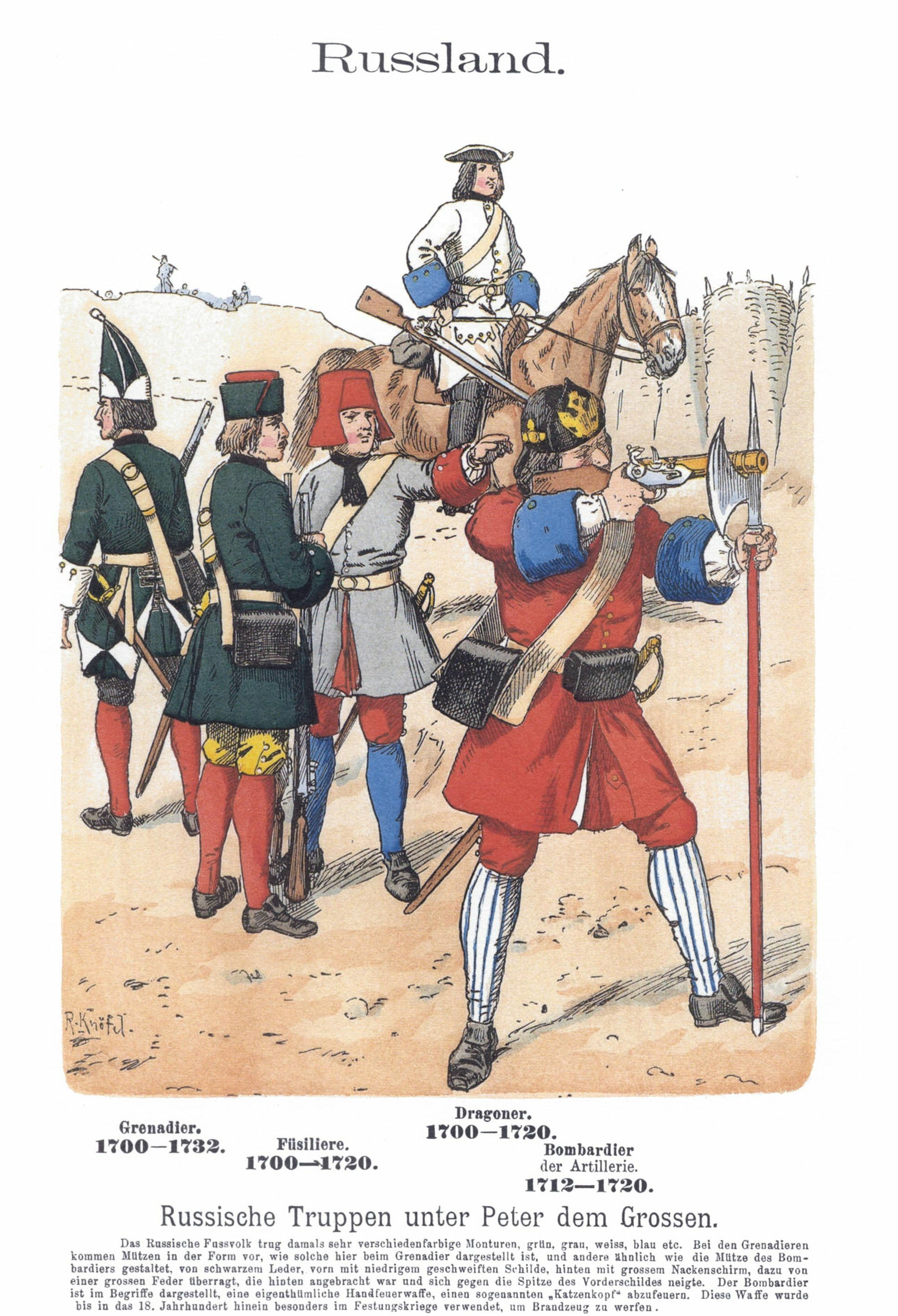 Rußland: Russische Truppen unter Peter dem Großen. Grenadier. 1700-1732. Füsiliere. 1700-1720. Dragoner. 1700-1720. Bombardier der Artillerie. 1712-1720